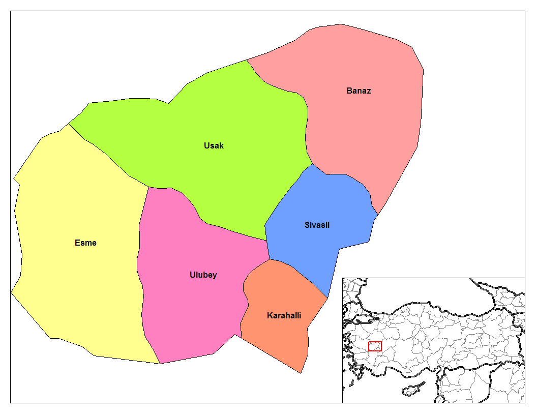 Map of the districts of Usak province in Turkey. Created by Rarelibra 17:53, 4 December 2006 (UTC) for public domain use, using MapInfo Professional v8.5 and various mapping resources.